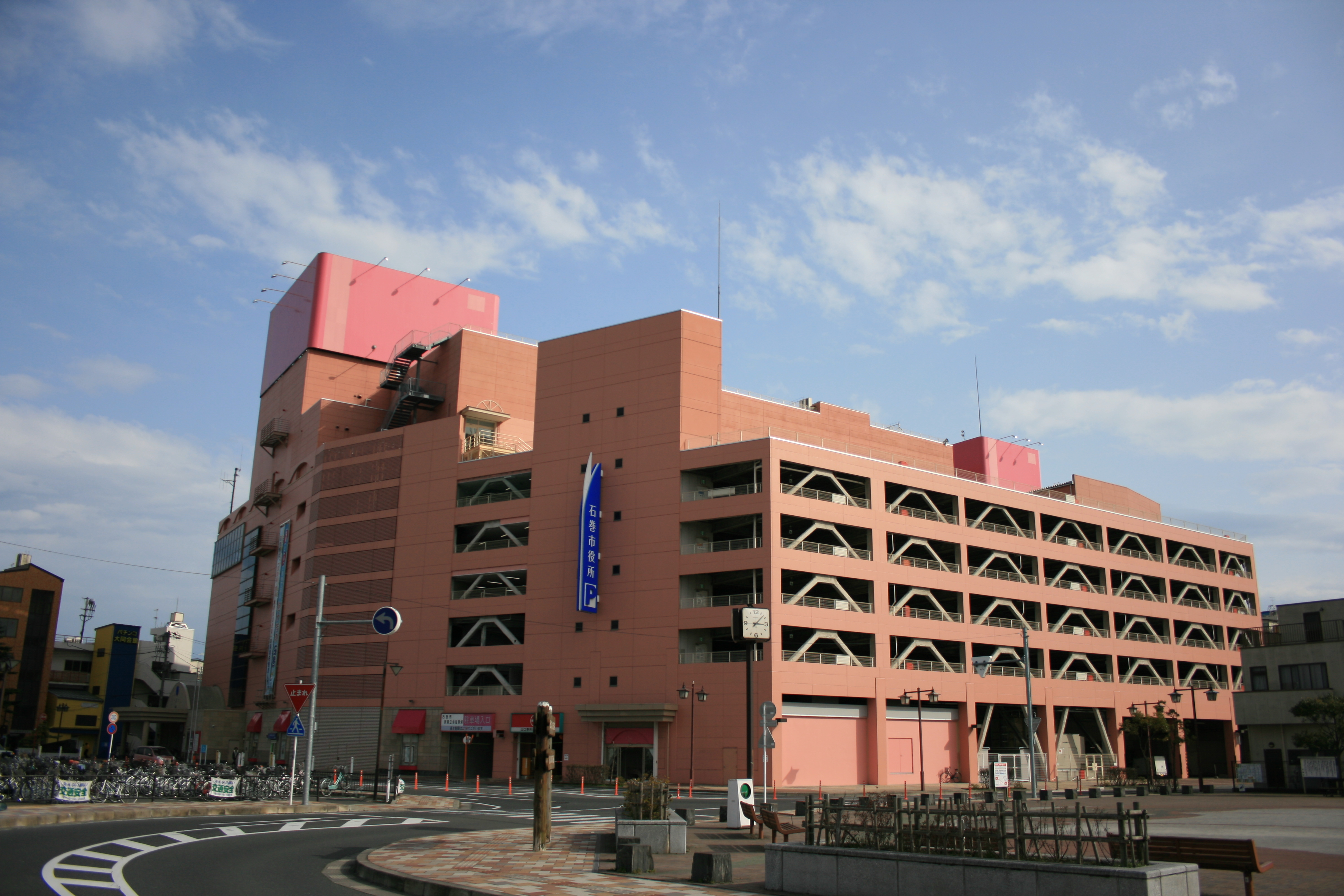 Ishinomaki City Office. Fuji-s is photographed in Ishinomaki-City, Miyagi Pref.,Japan on April 11, 2010.